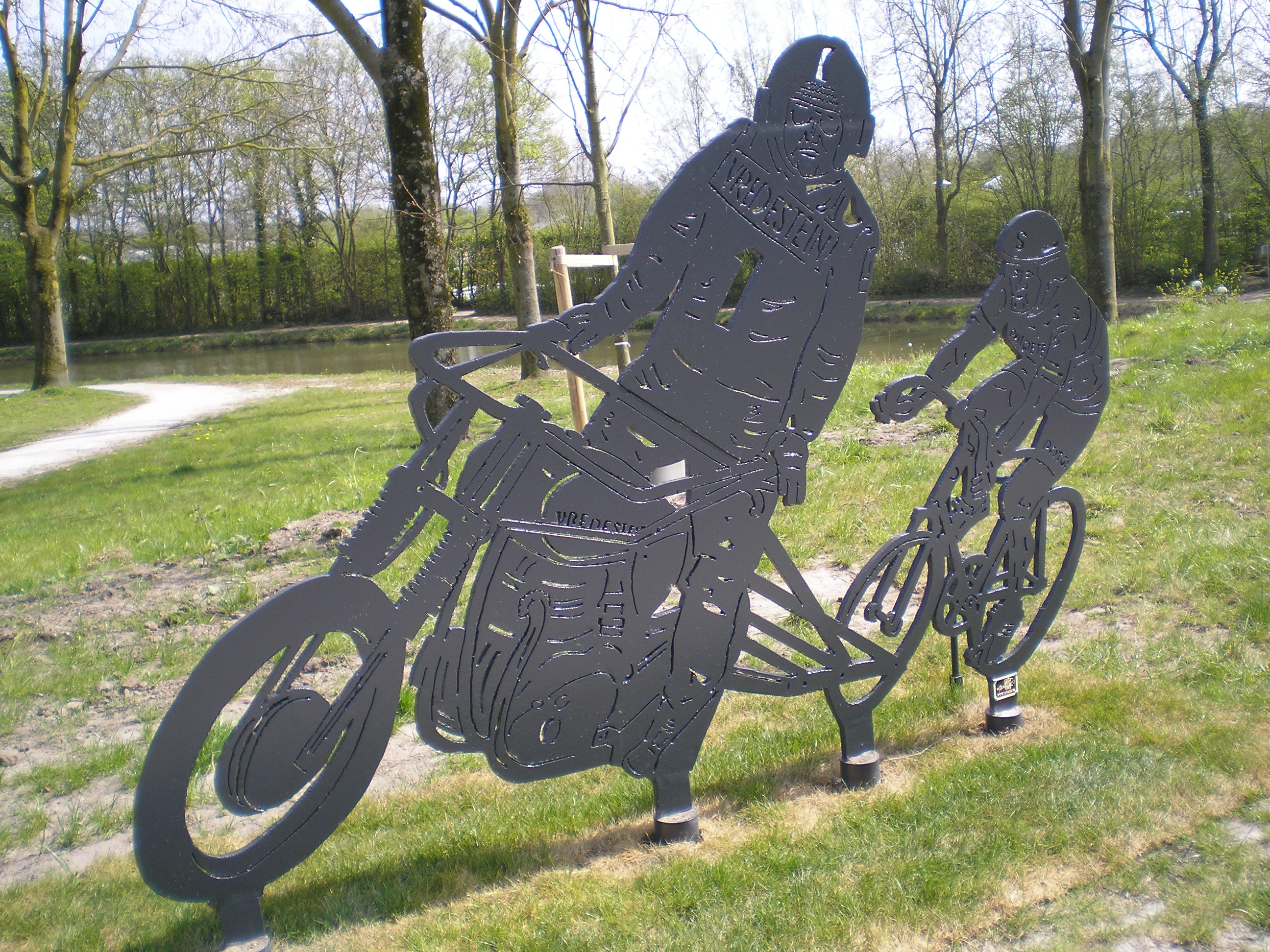 Artwork Noppie Koch from Rein Tupke to Herculeslaan in Utrecht in the Netherlands